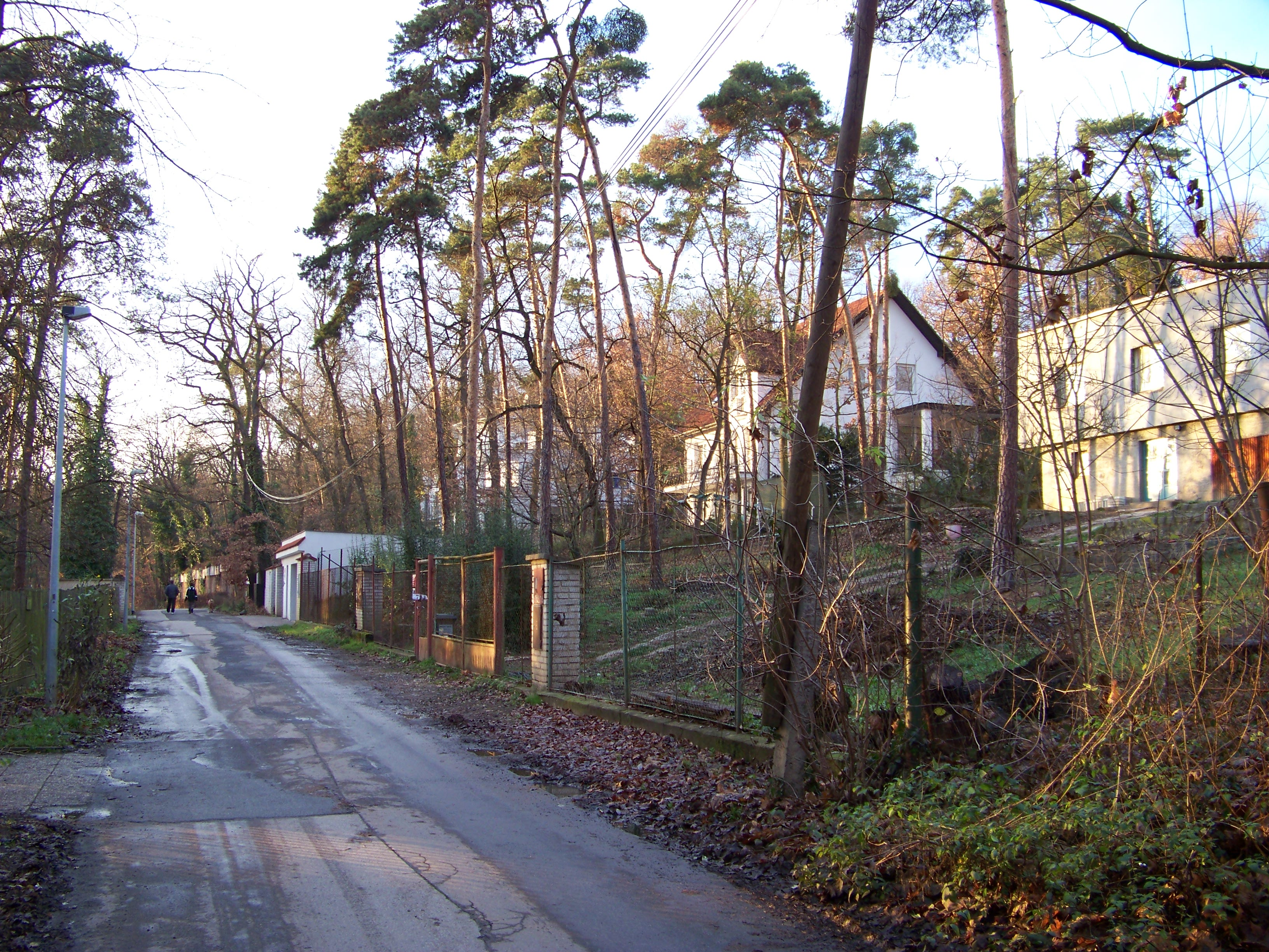 Prague-Hodkovičky, the Czech Republic. Zátiší, V Zátiší street.